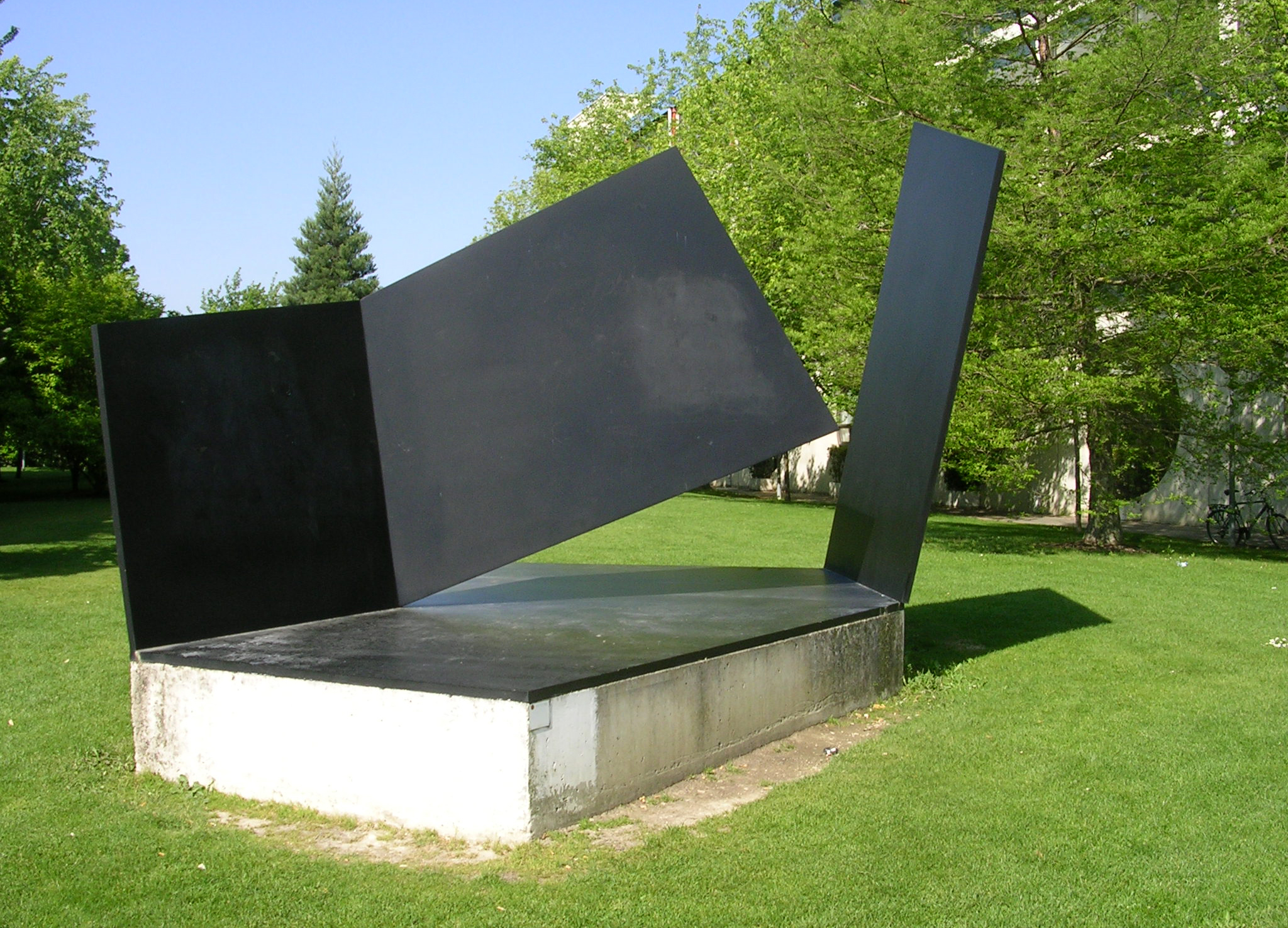 “Opposition of two dihedrons. A homage to Sáenz de Oiza”. Steel sculpture by Jorge Oteiza in Pamplona, UPNA campus. Designed in 1959.